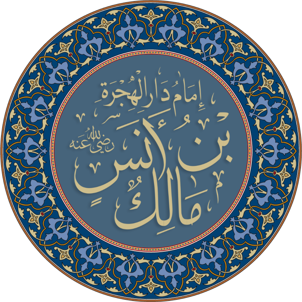 Malik Bin Anas Name